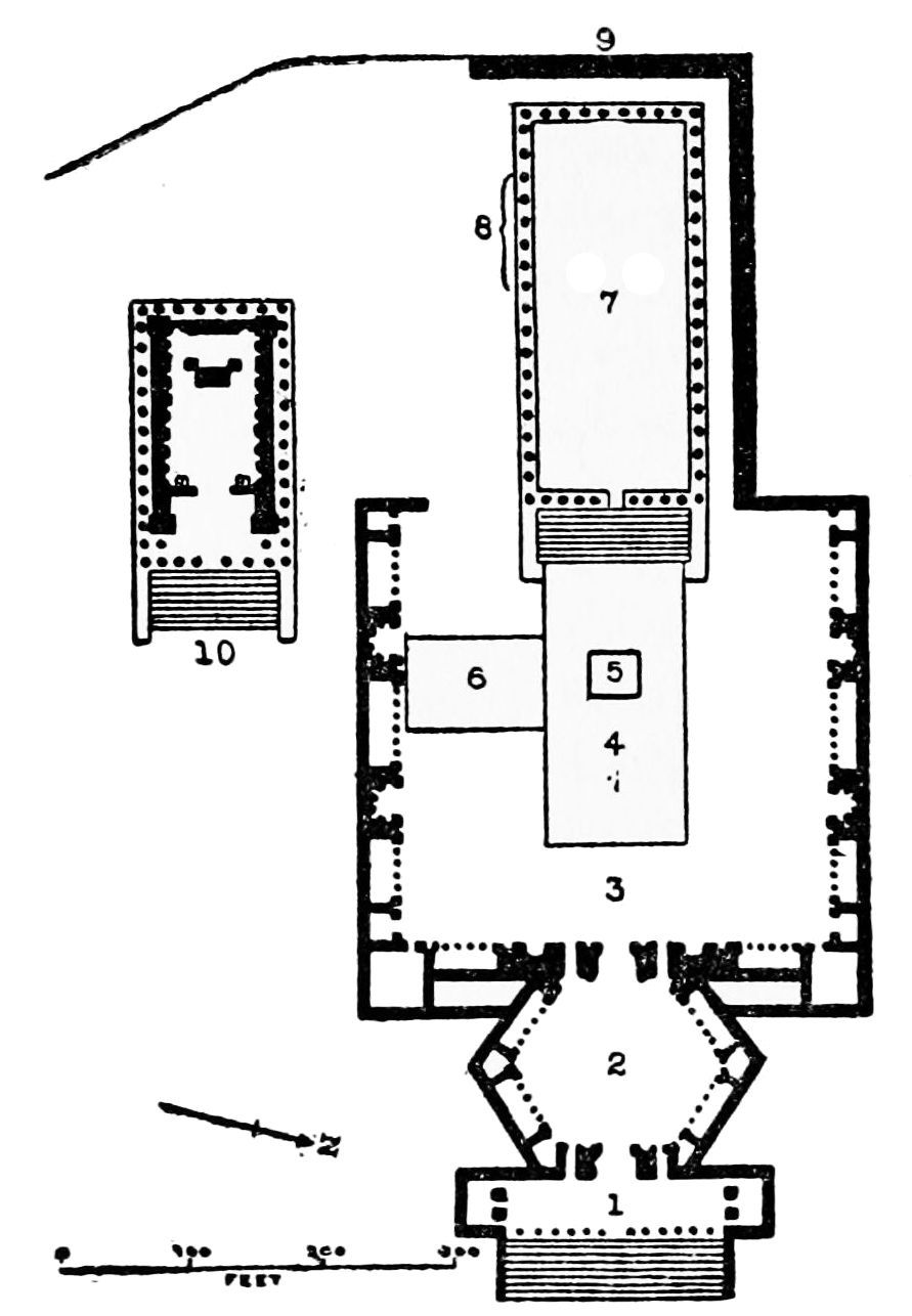 The acropolis of Baalbek